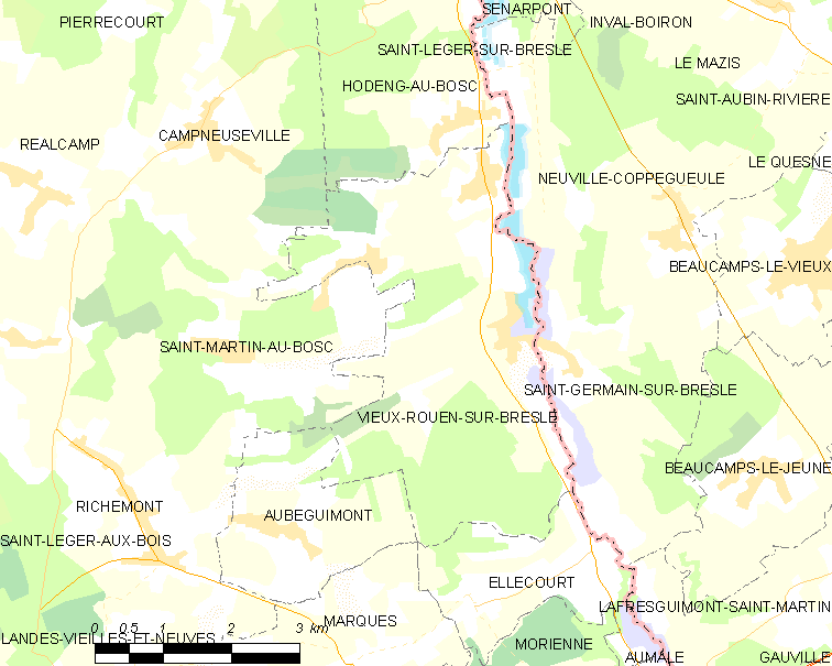 Map of French municipality Vieux-Rouen-sur-Bresle